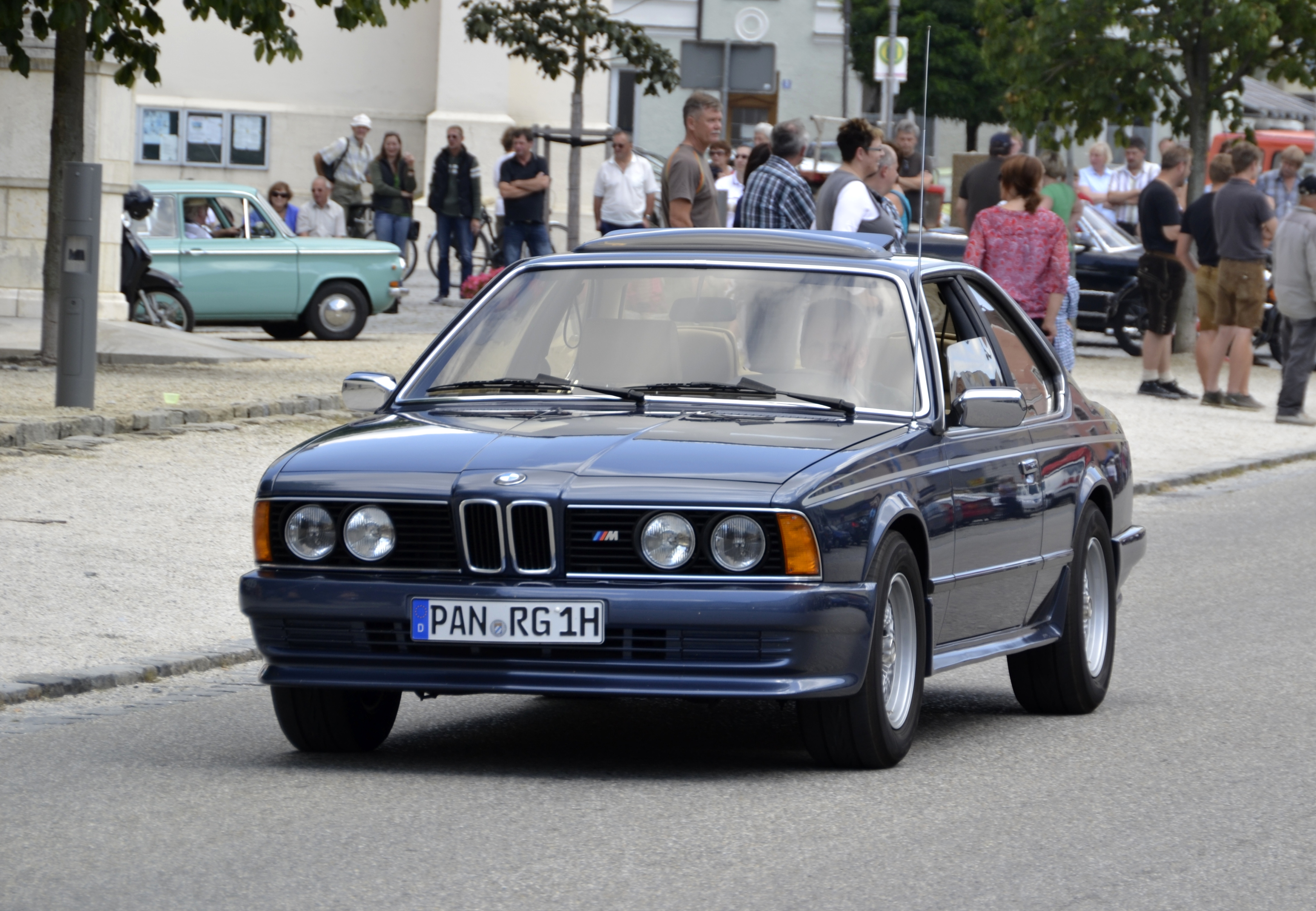 BMW M5 at the Oldtimerumzug 2012.